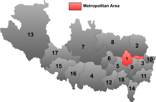 Map of shigatse prefecture in Tibet autonomous region.